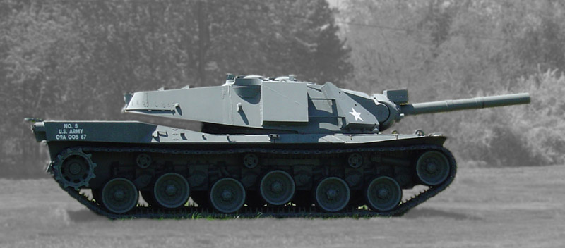 MBT-70 on display at the US Army Ordnance Museum in Aberdeen. The picture taken May 7, 2007.